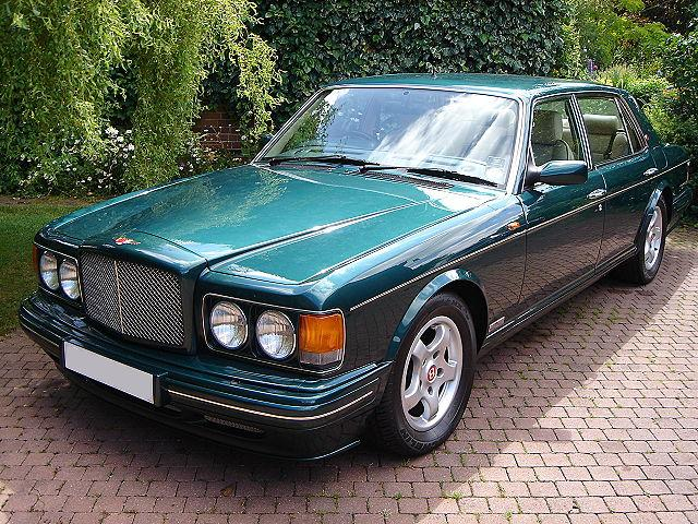 1997 Bentley Turbo RT Photographed in Norwich, England.